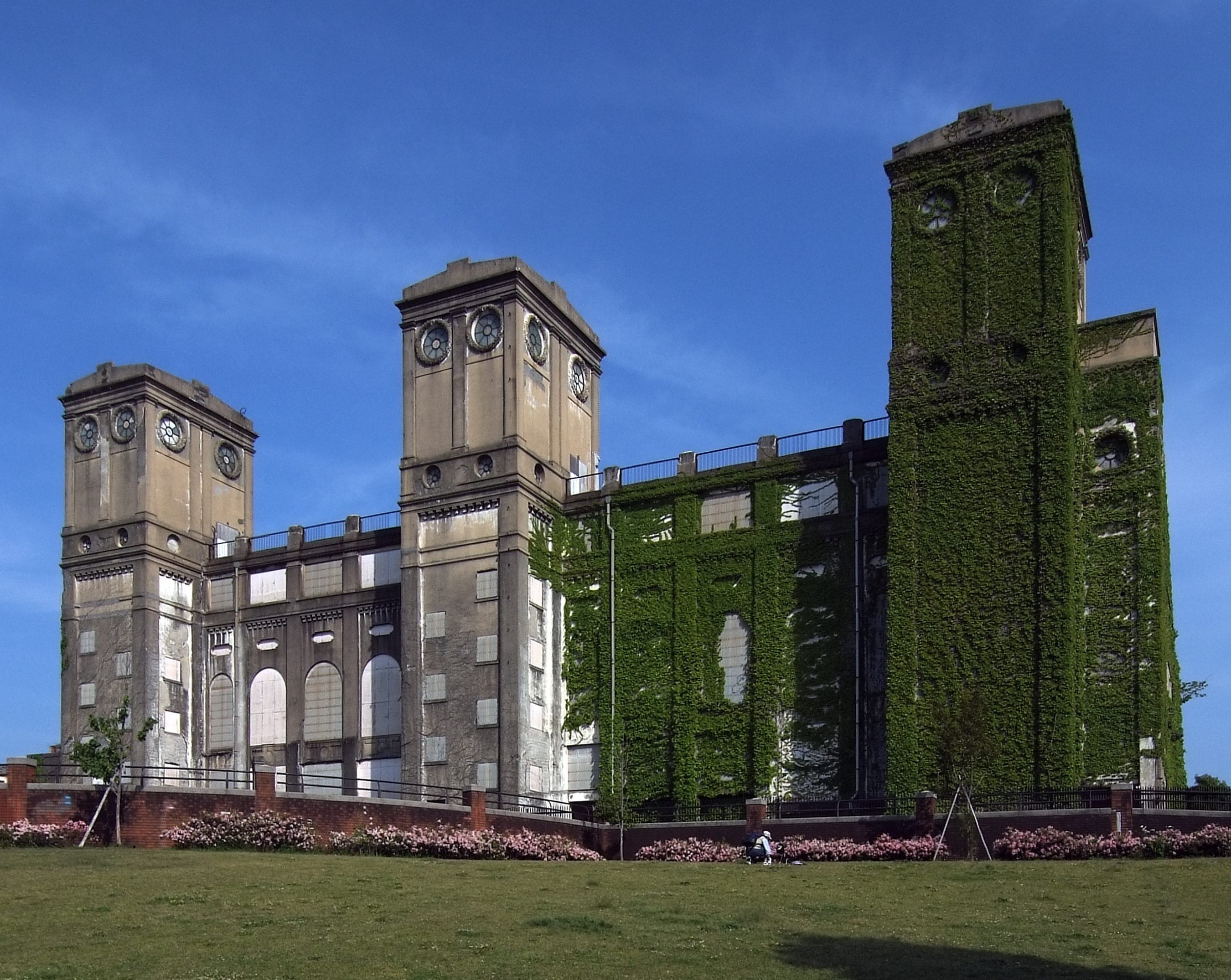 Former Negishi Horse Racing Track, at Naka-ku Yokohama Japan, design by J.H.Morgan in 1929.